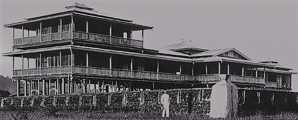 Daru Jambangan (Palace of Flowers) which was the royal palace of the Sultan of Sulu since historical times. The palace was made of wood, and was destroyed